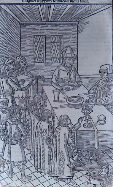 Prince Cem, brother of sultan Bayezid II and claimant to the throne, at the dinner given in Rhodes by Pierre d'Aubusson, grand master of the Knights Hospitaller; woodcut retrieved from the Ulm edition (1496) of William Caoursin's 'Obsidionis Rhodie Urbis Descriptio'.